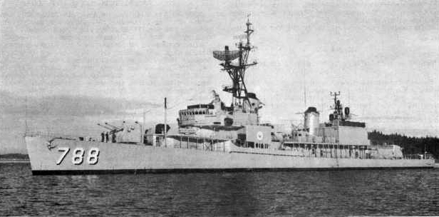 The U.S. Navy Gearing-class destroyer USS Hollister (DD-788) after the completion of ther FRAM I refit, in 1962.